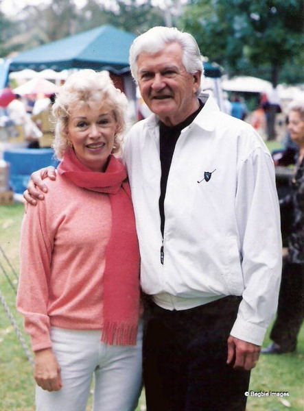 Bob Hawke, former Prime Minister of Australia & Blanche D'Alpuget, his second wife